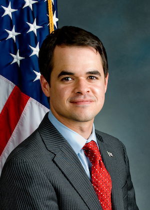 NYS Senator David Carlucci 38th Senatorial District (D-Rockland/Westchester)